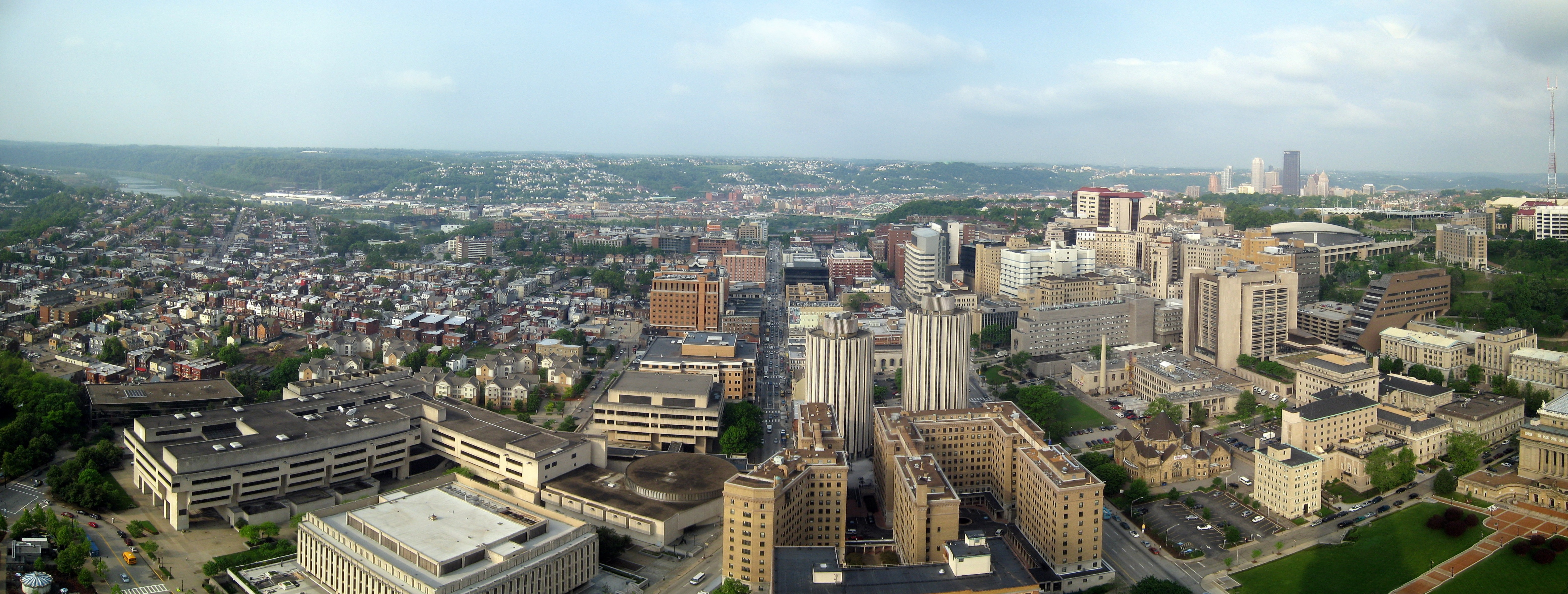 University of Pittsburgh (looking South-West) seen from the Cathedral of Learning with the Hillman Library seen in the lower left, the Litchfield Towers and Schenley Quadrangle in the center, and the Soldiers and Sailors National Military Museum and Memorial partially seen in the lower right. The Pittsburgh city skyline is seen in the upper right. May 14, 2010.